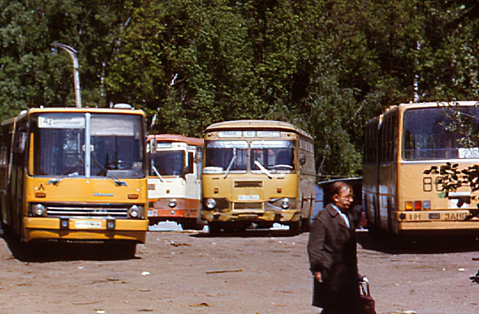 Buses at bus station Matveevskoye in Moscow